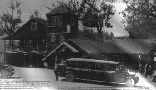 This close-up of a historic monument is at the site of the Sandberg Inn or Lodge on California's Ridge Route highway. Photo by George Garrigues, October 2008.